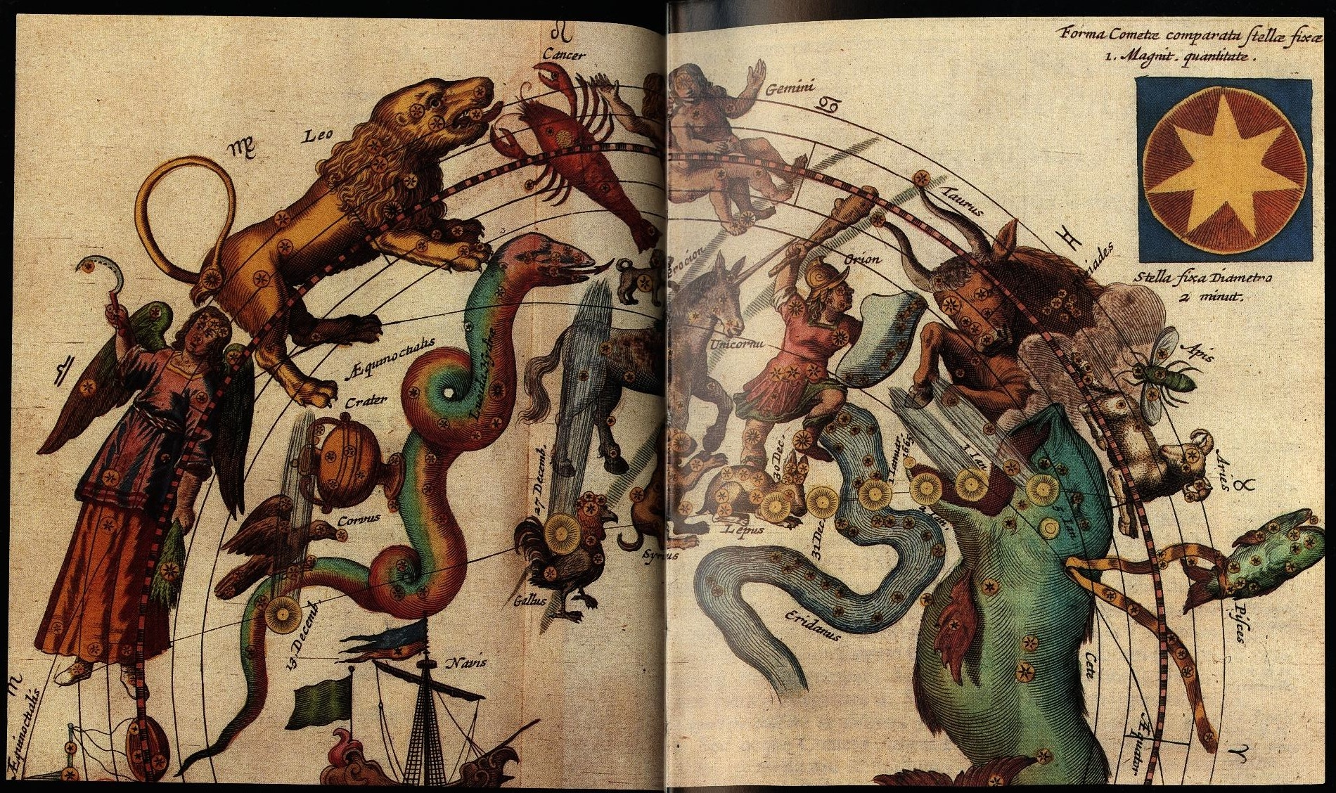 Engravings in Theatrum Cometicum (vol. 2) by Stanislas Labienietz (Stanisław Lubieniecki), 1667, Bibliothèque nationale de France. — Image in the book The Sky: Order and Chaos by Jean-Pierre Verdet, ‘New Horizons’ series, Thames & Hudson, 1992.